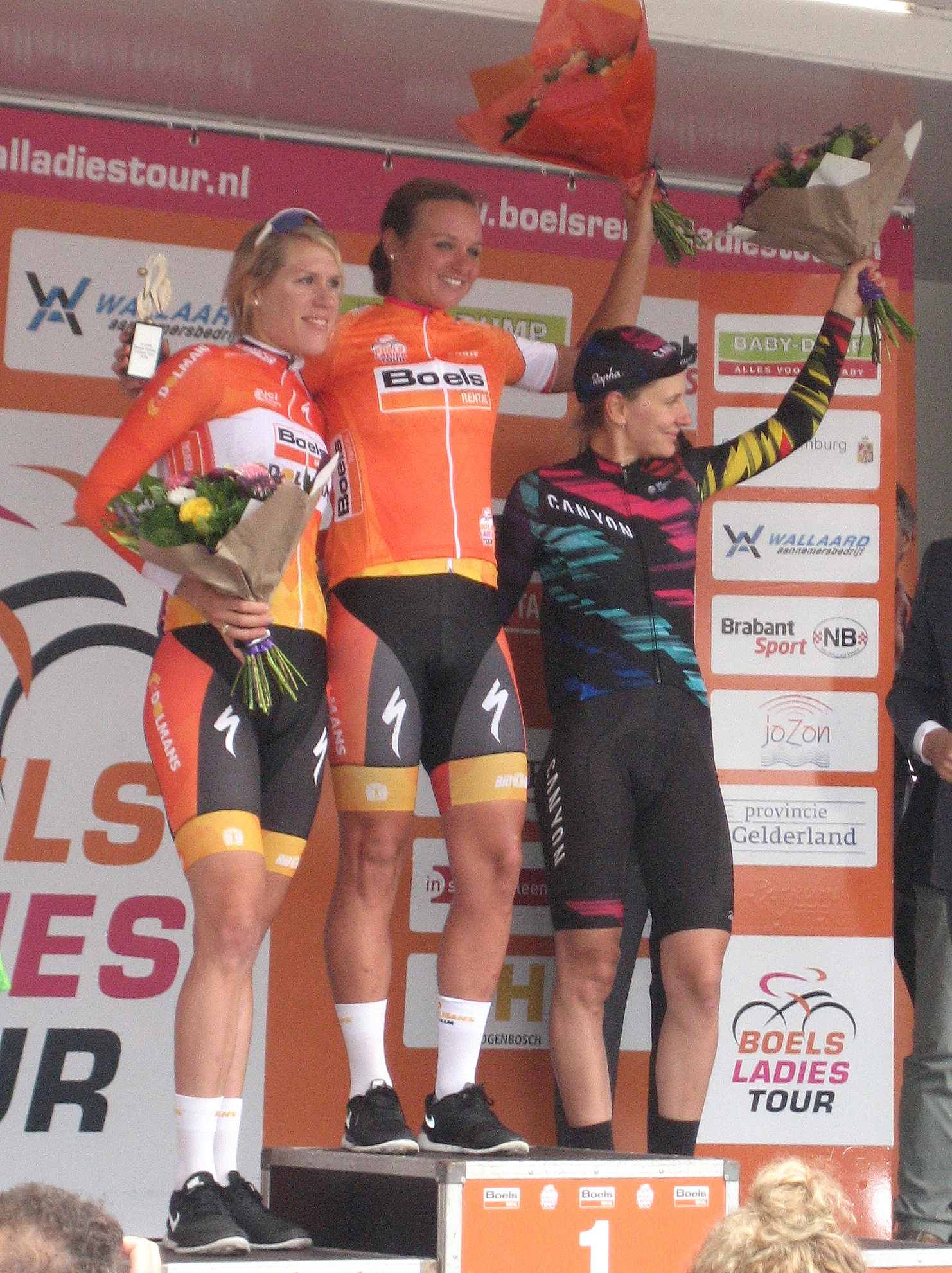 Podium overall general classification Holland Ladies Tour 2016 1. Chantal Blaak 2. Ellen van Dijk (left) 3. Alena Amialiusik (right)